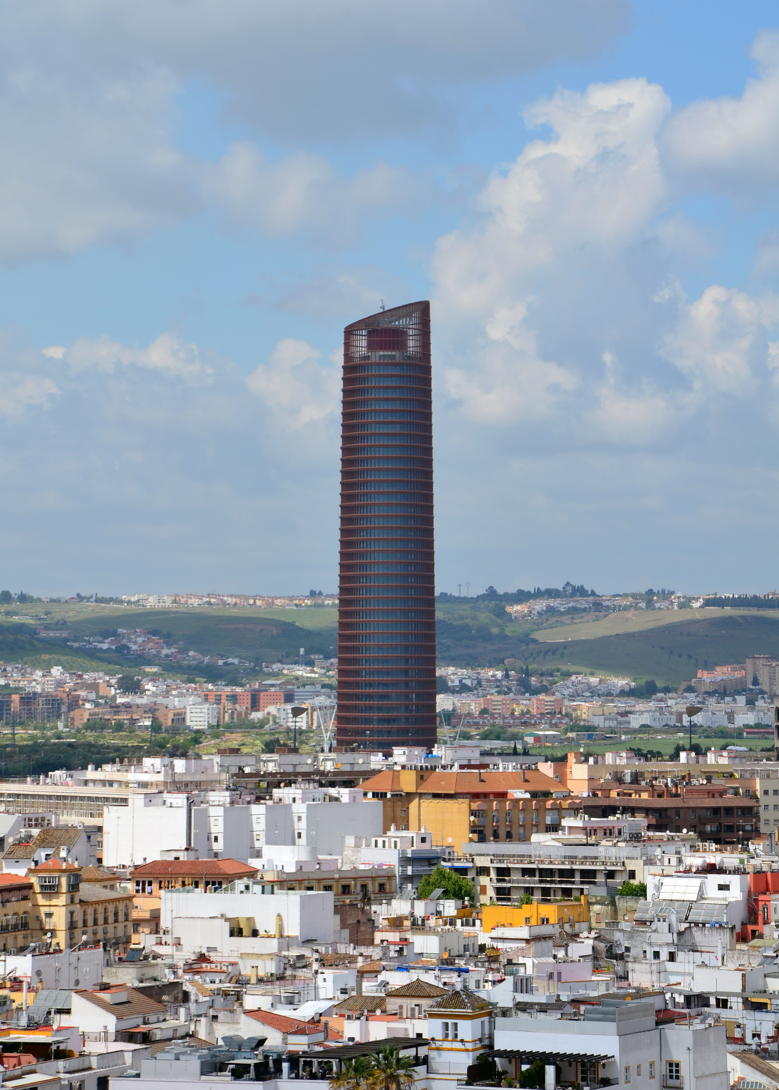 The Sevilla Tower of Seville (Spain), photographed in april 2015 from the top of the Giralda, the bell-tower of the cathedral. In the foreground can be seen the neighbourhoods of El Arenal and Museo.